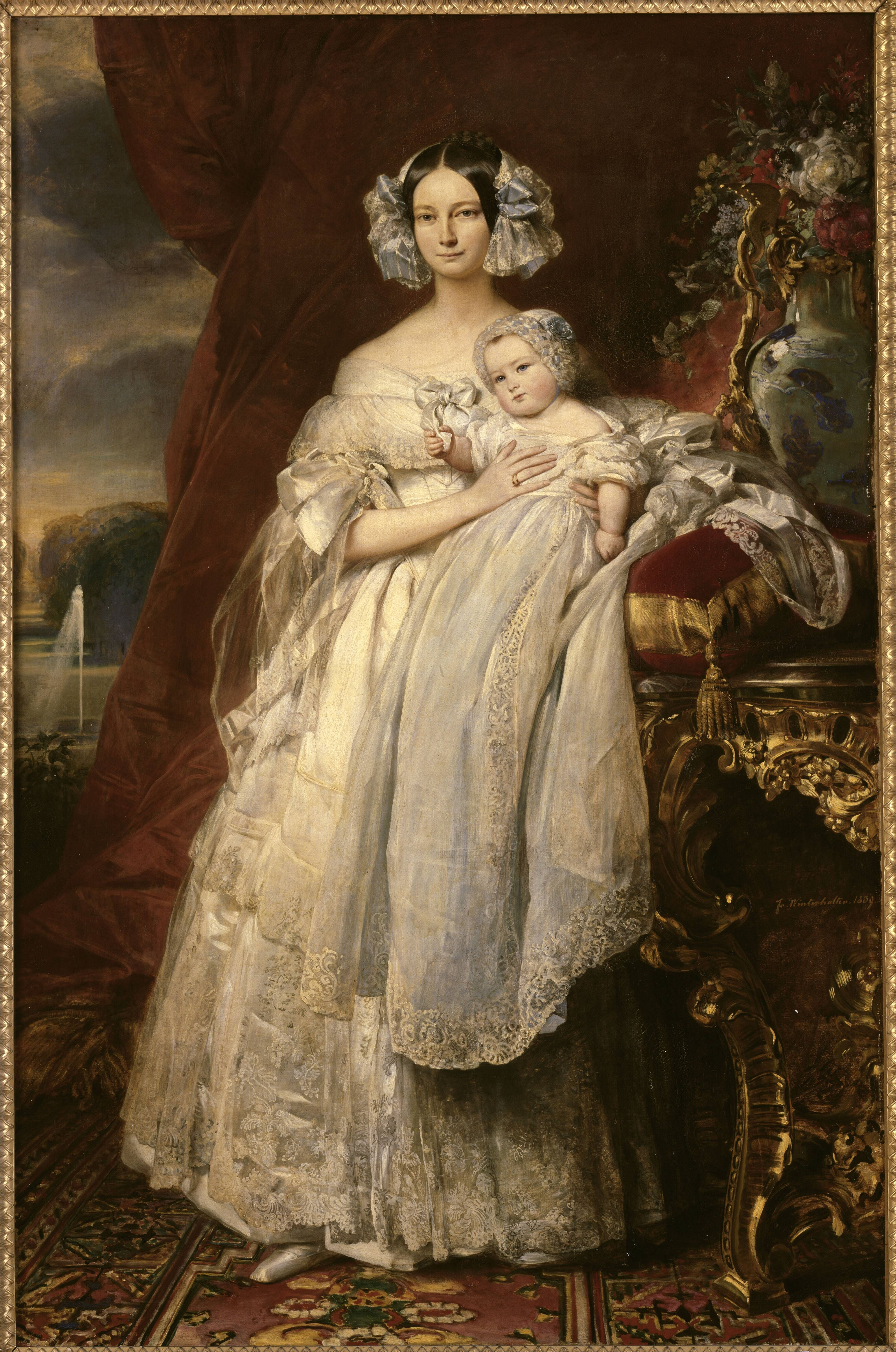 Portrait of Helene of Mecklemburg-Schwerin, Duchess of Orleans with her son the Count of Parislabel QS:Len,"Portrait of Helene of Mecklemburg-Schwerin, Duchess of Orleans with her son the Count of Paris" label QS:Lfr,"La duchesse d'Orléans tenant son fils, Louis Philippe, comte de Paris"